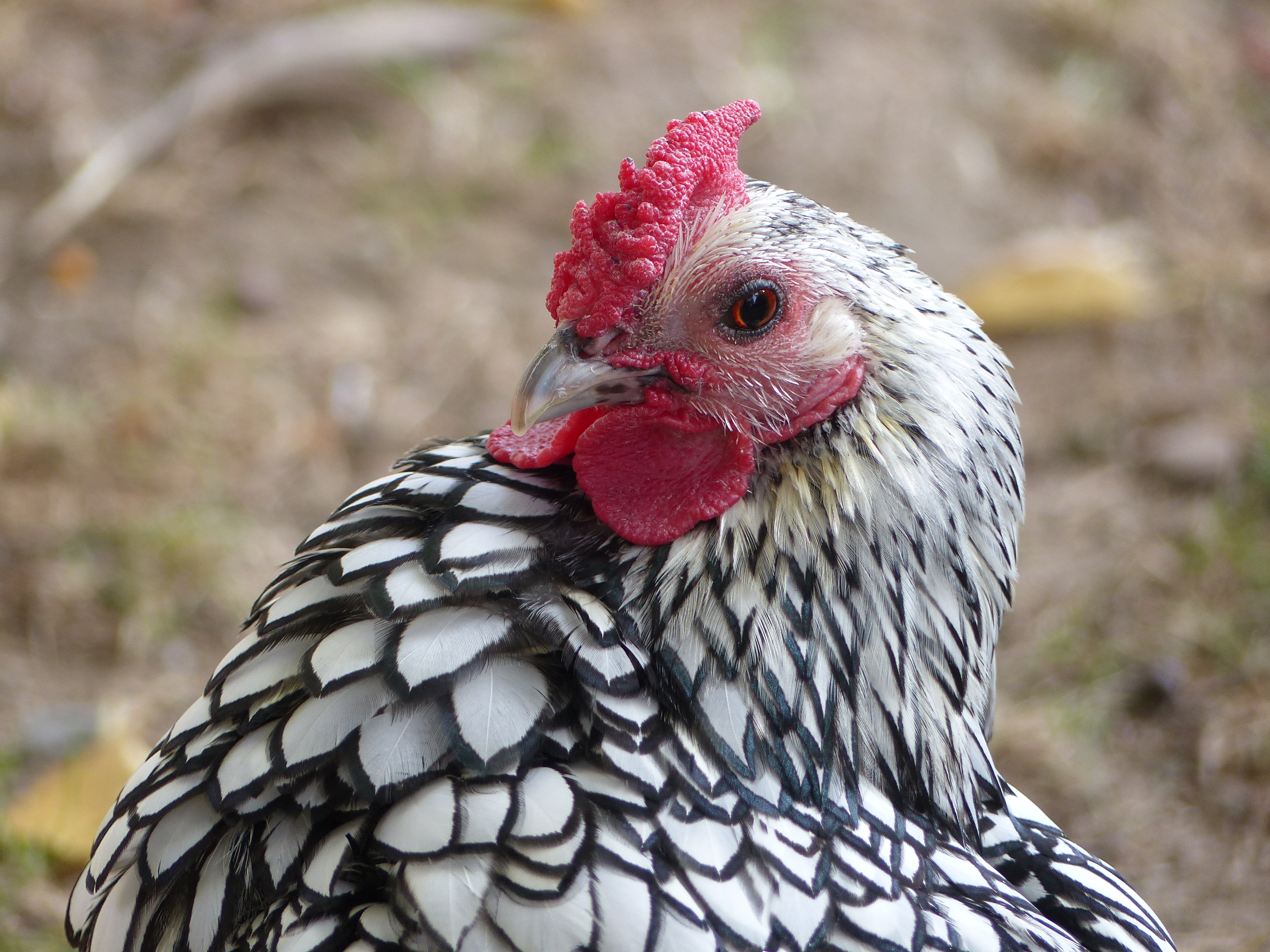 Sebright rooster, jardin botanique de Tours, France